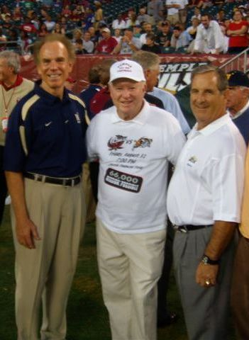 Picture of former Navy Coach Wayne Hardin (center) and his two Heisman trophy winner from Navy, Roger Staubach 1963 and Joe Bellino 1960